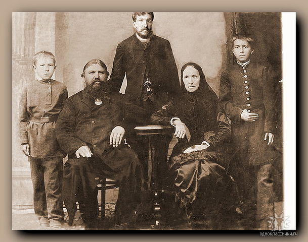 Family portrait of the Tashkent merchant Ivan Dmitrievich Tezikov